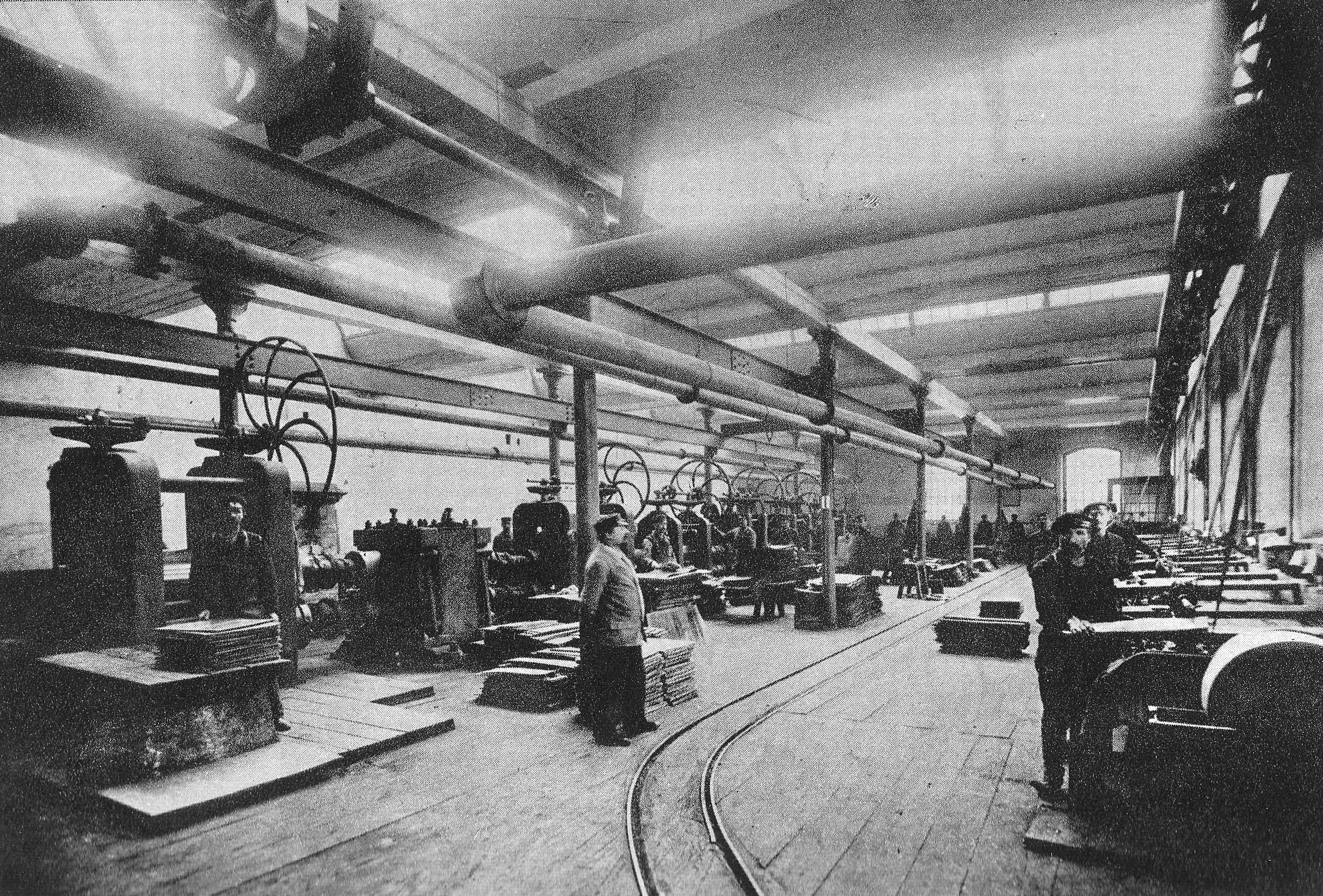 Shopfloor in the Norblin, Bracia Buch i T. Werner Works in Warsaw